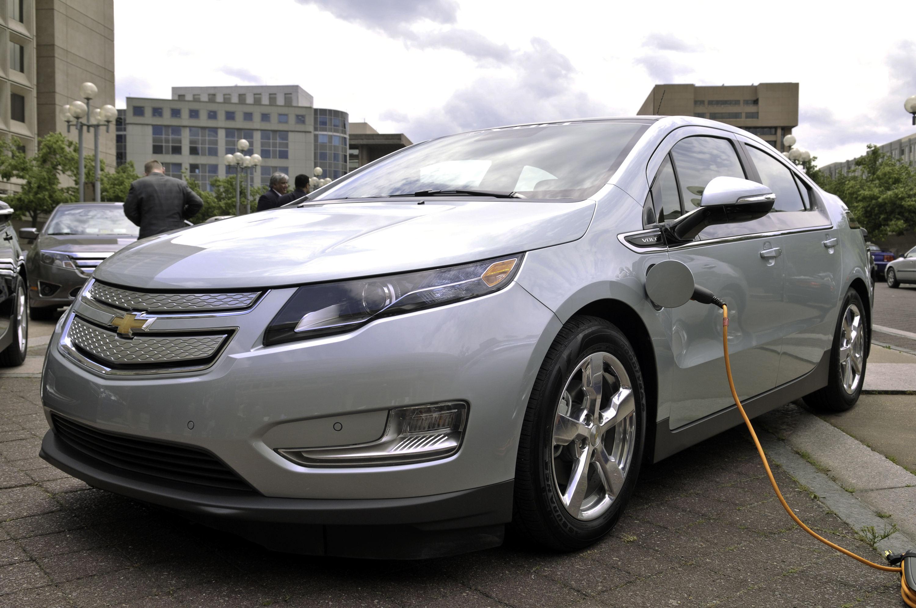 A Chevy Volt charging up on L'Enfant plaza.